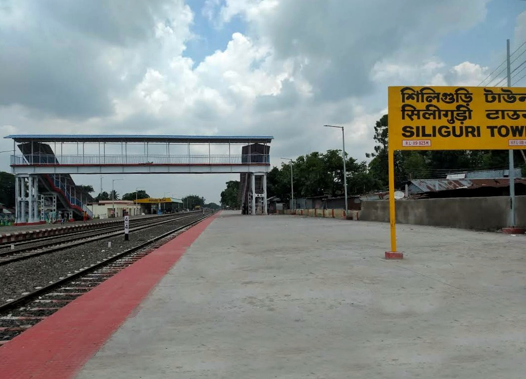 View of Siliguri town station